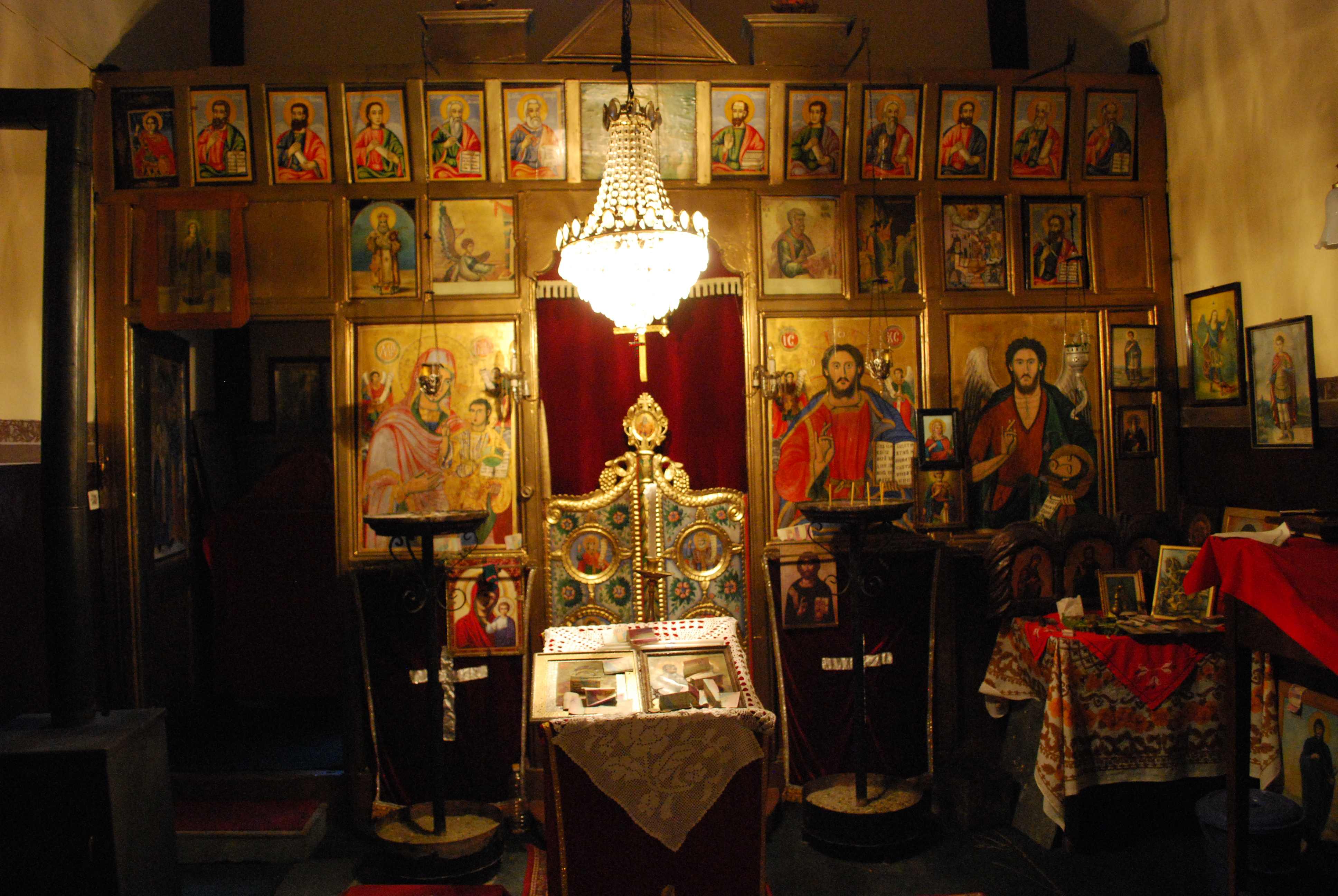 St. Cyril and Methodius Paraklesis in Lešok Monastery, Macedonia This image is uploaded as part of the picture contest Wiki Loves Cultural Heritage in Macedonia 2013. English | македонски | +/−